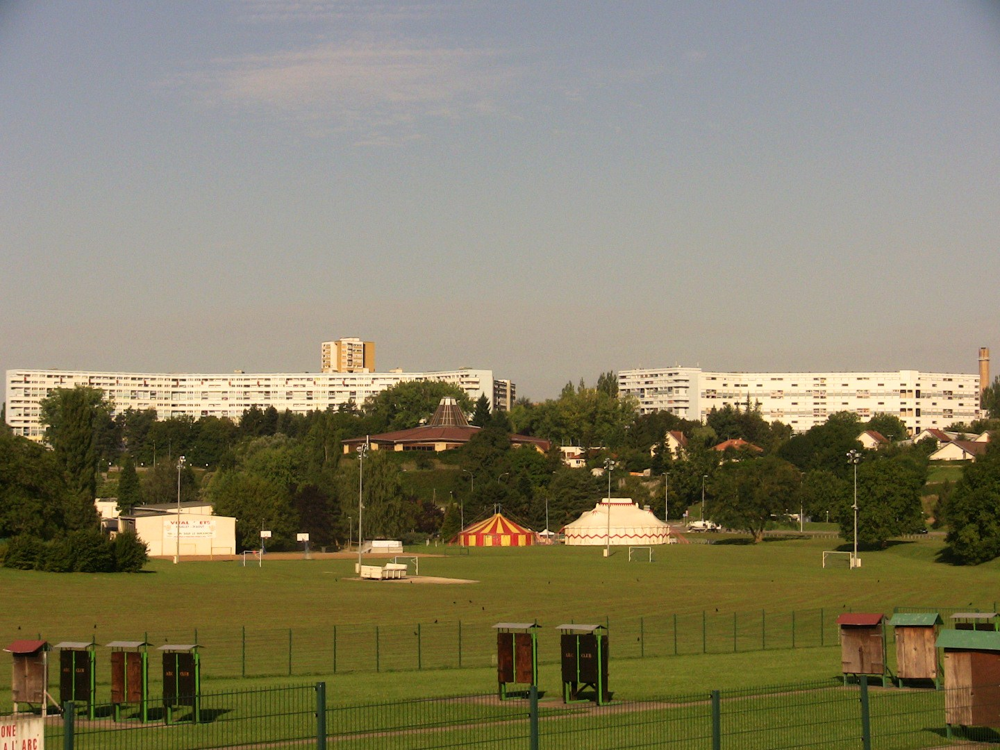 View of Planoise from the sector of Malcombe, in Besançon (France)